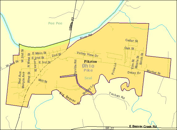 Map of Piketon, a village in Pike County, Ohio, United States, with its boundaries at the time of the 2000 census.